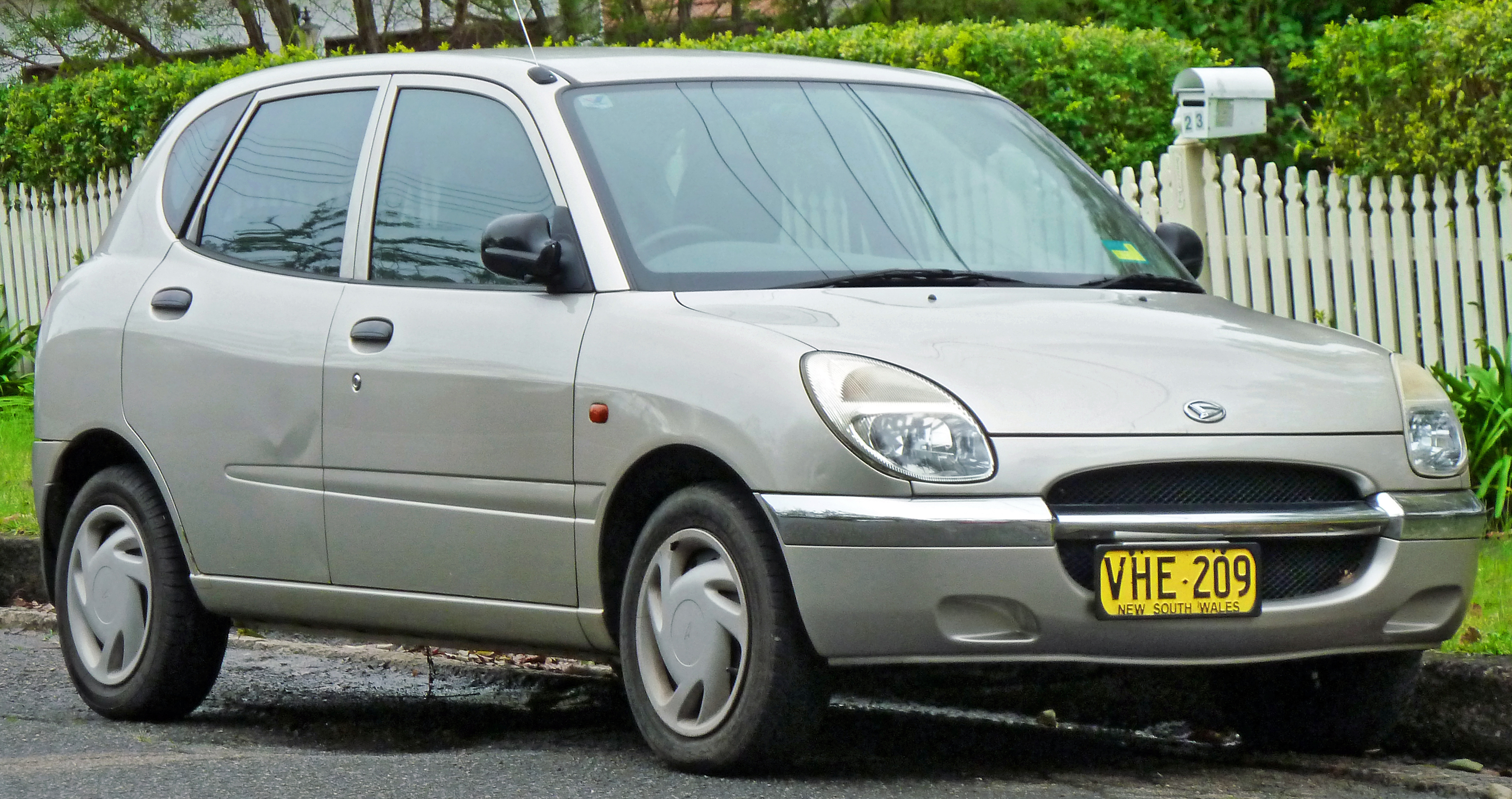 1998 Daihatsu Sirion (M100) hatchback. Photographed in Gordon, New South Wales, Australia.